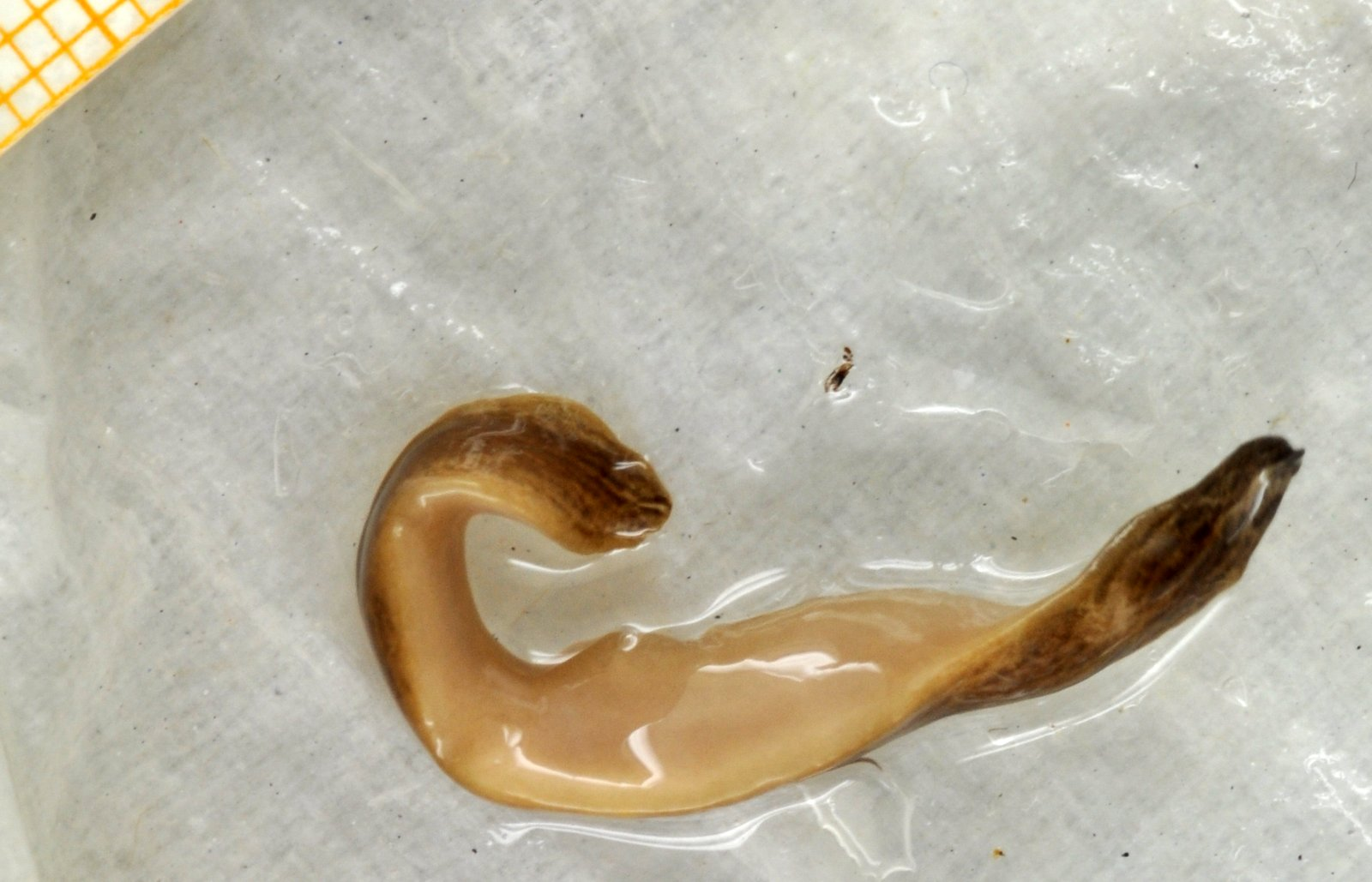 Obama nungara (Geoplanidae). From Lamballe, Côtes d'Armor, France. Scale in millimeters. Material in Muséum National d'Histoire Naturelle, MNHN JL57